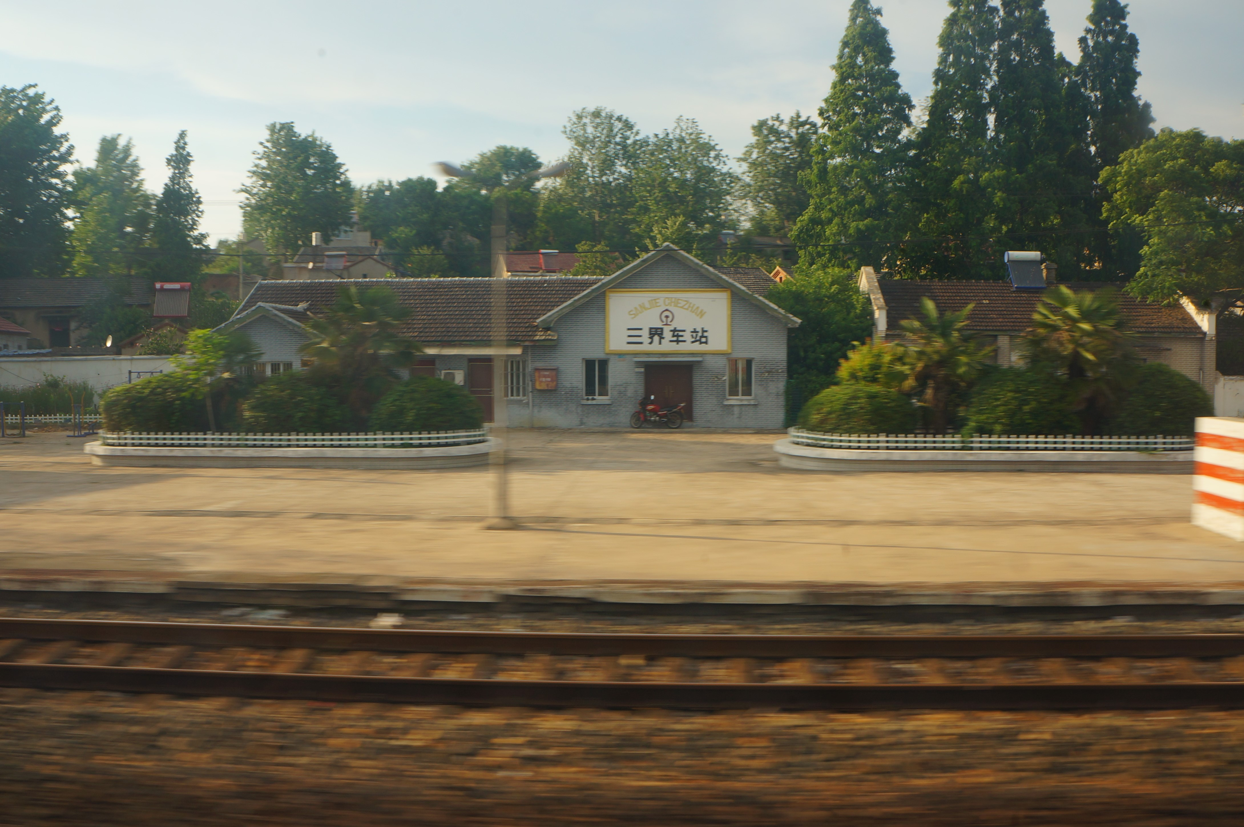 201806 Station Building of Sanjie Station